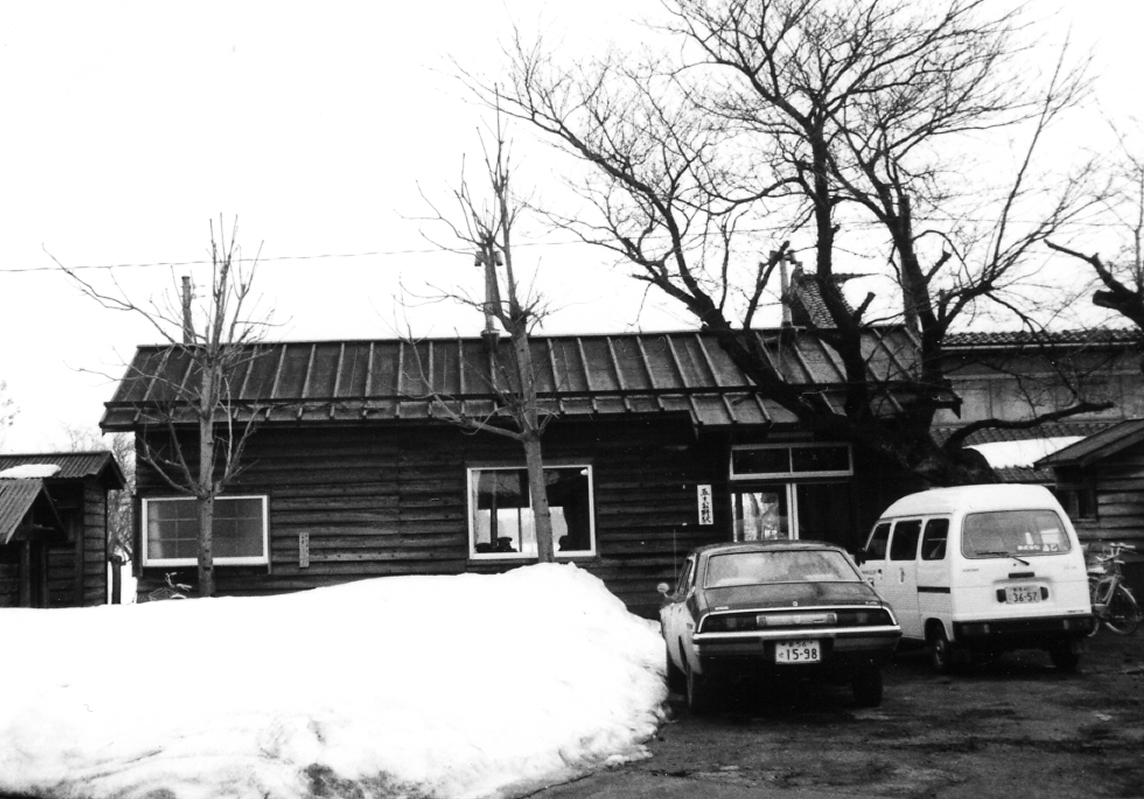 JNR Ijimino station,Akatani Line,Niigata Pref.,Japan